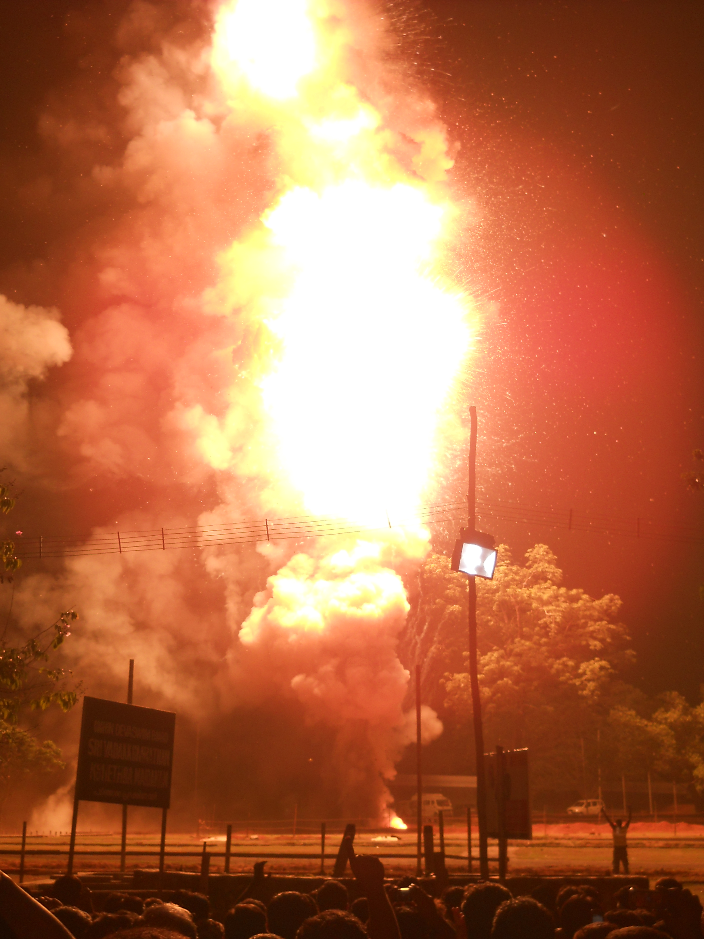 പൂരക്കാഴ്ചകള്‍, തൃശ്ശൂര്‍ പൂരം 2011 This media file is uploaded with Malayalam loves Wikimedia event - 2.